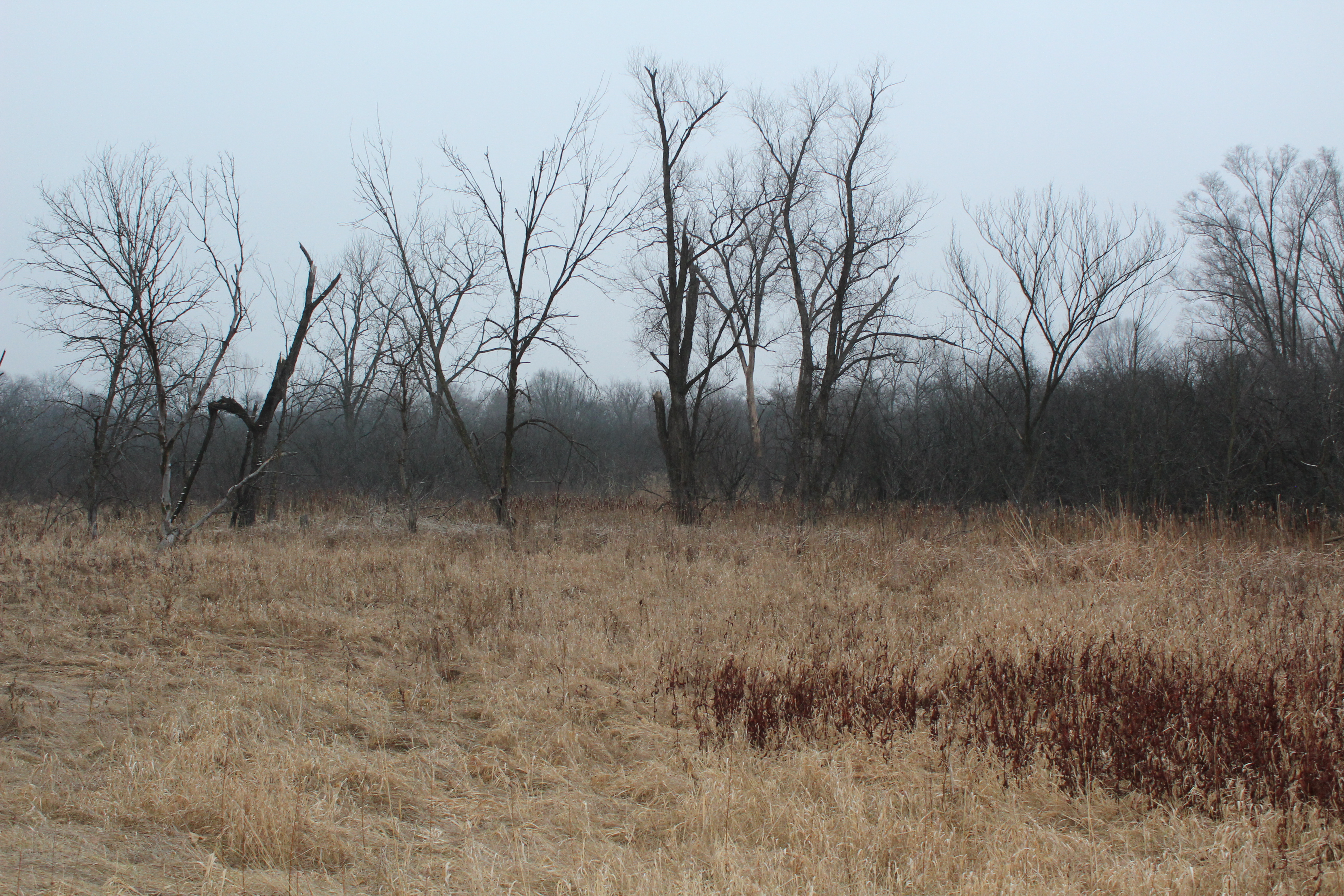 Oak savanna in Fox River Grove, Illinois. Taken in December, 2019.